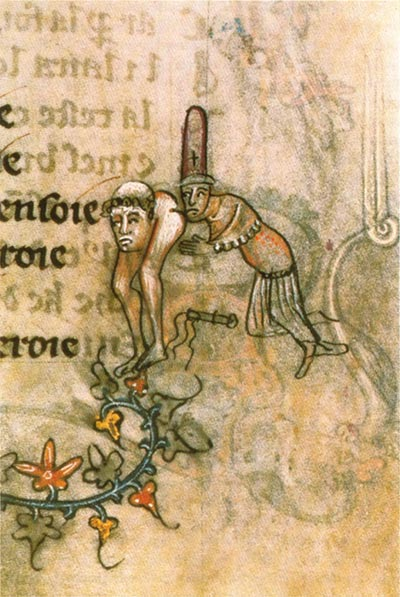 Templar kisses a cleric. Manuscript illustration of Jacques de Longuyon by Les Voeux du Paon.